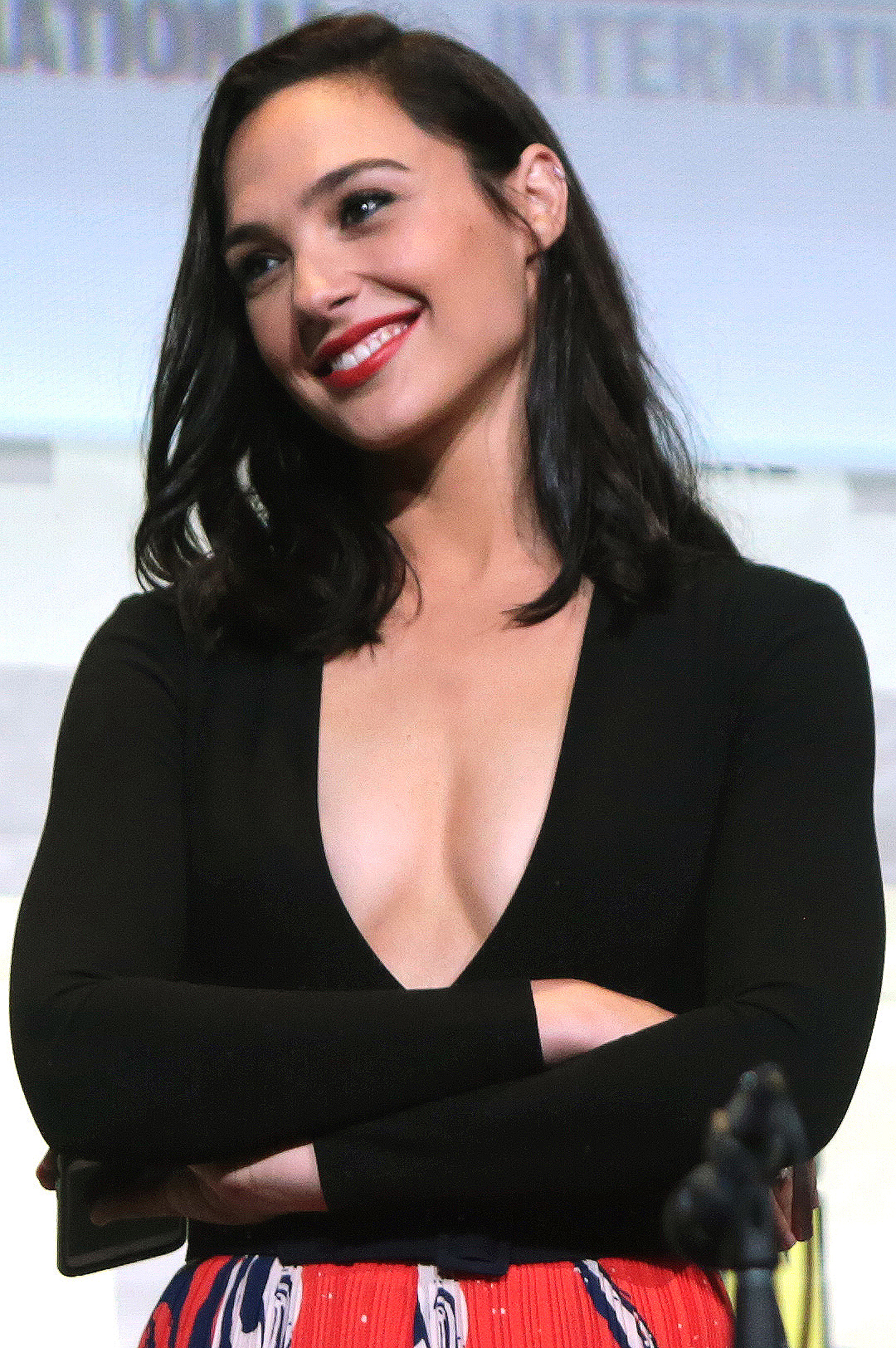 Gal Gadot at the 2016 San Diego Comic-Con International panel for the film Justice League.